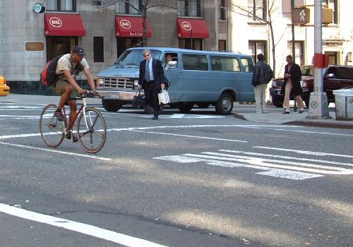 Bicycle messenger, NYC